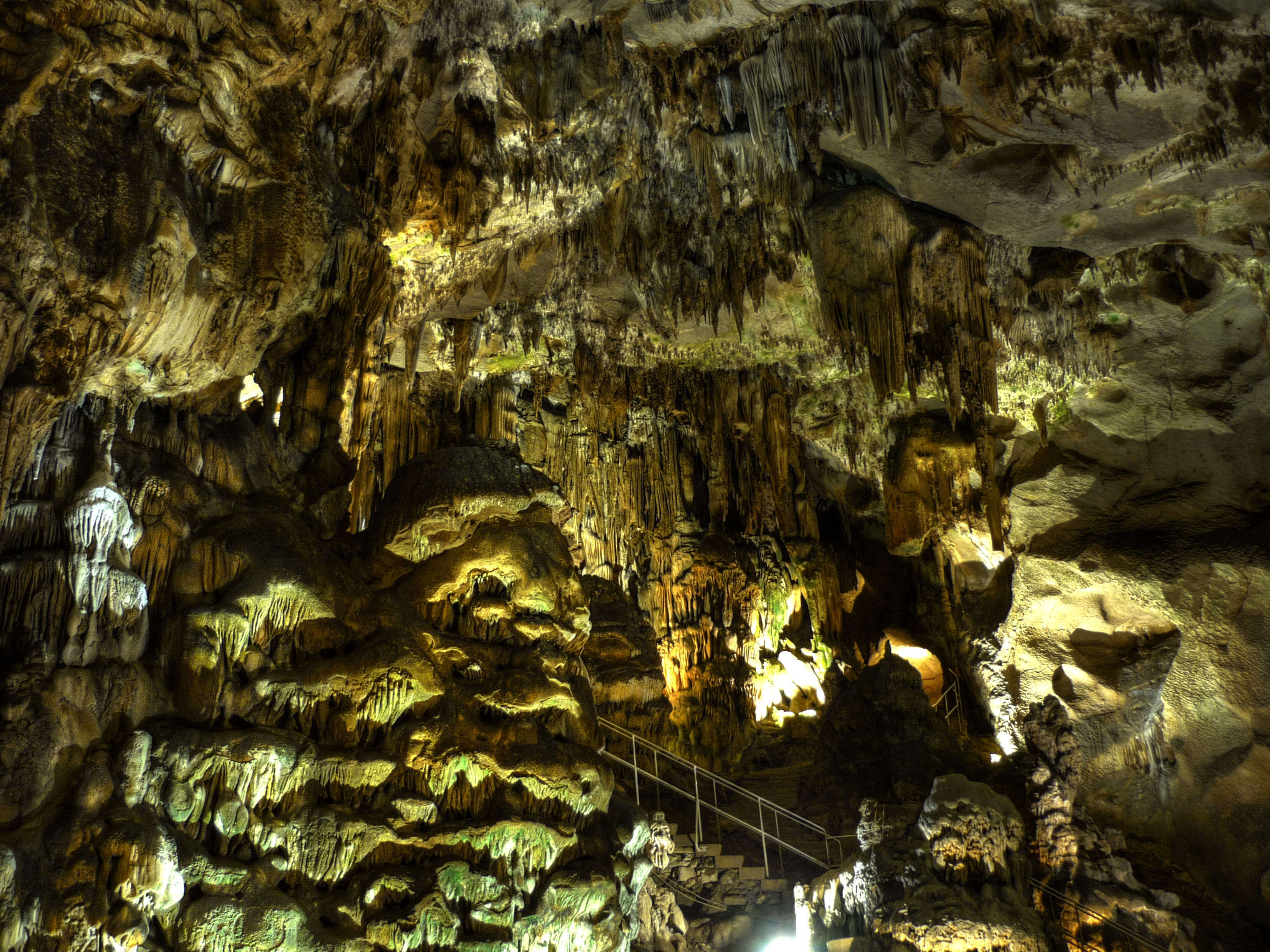 The "concert hall" chamber, Ledenika cave, Vratsa, Bulgaria